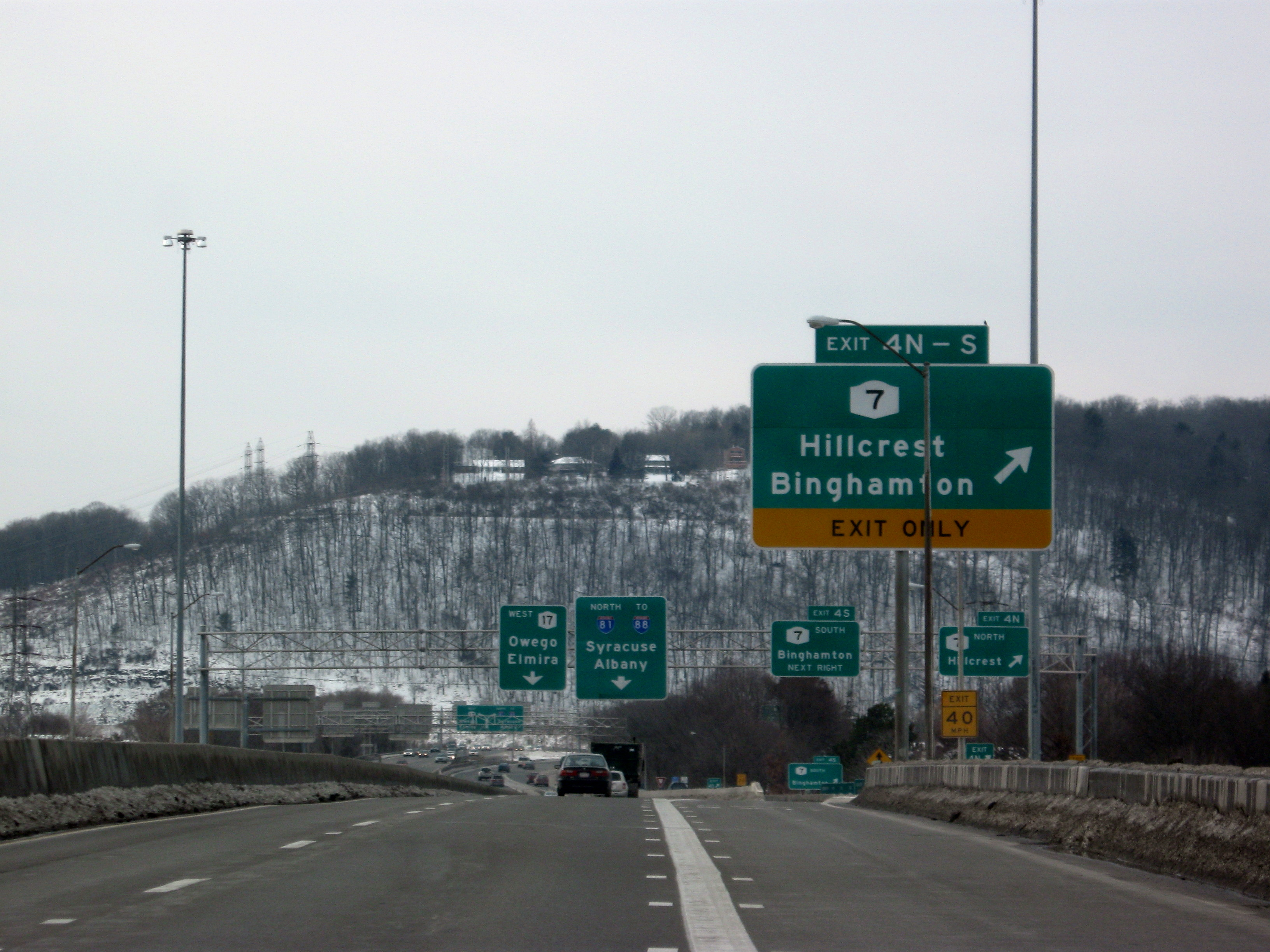 Interstates 81 and 86 with New York State Route 17 approaching Exits 4 N-S, the interchange for New York State Route 7 in Binghamton, New York.